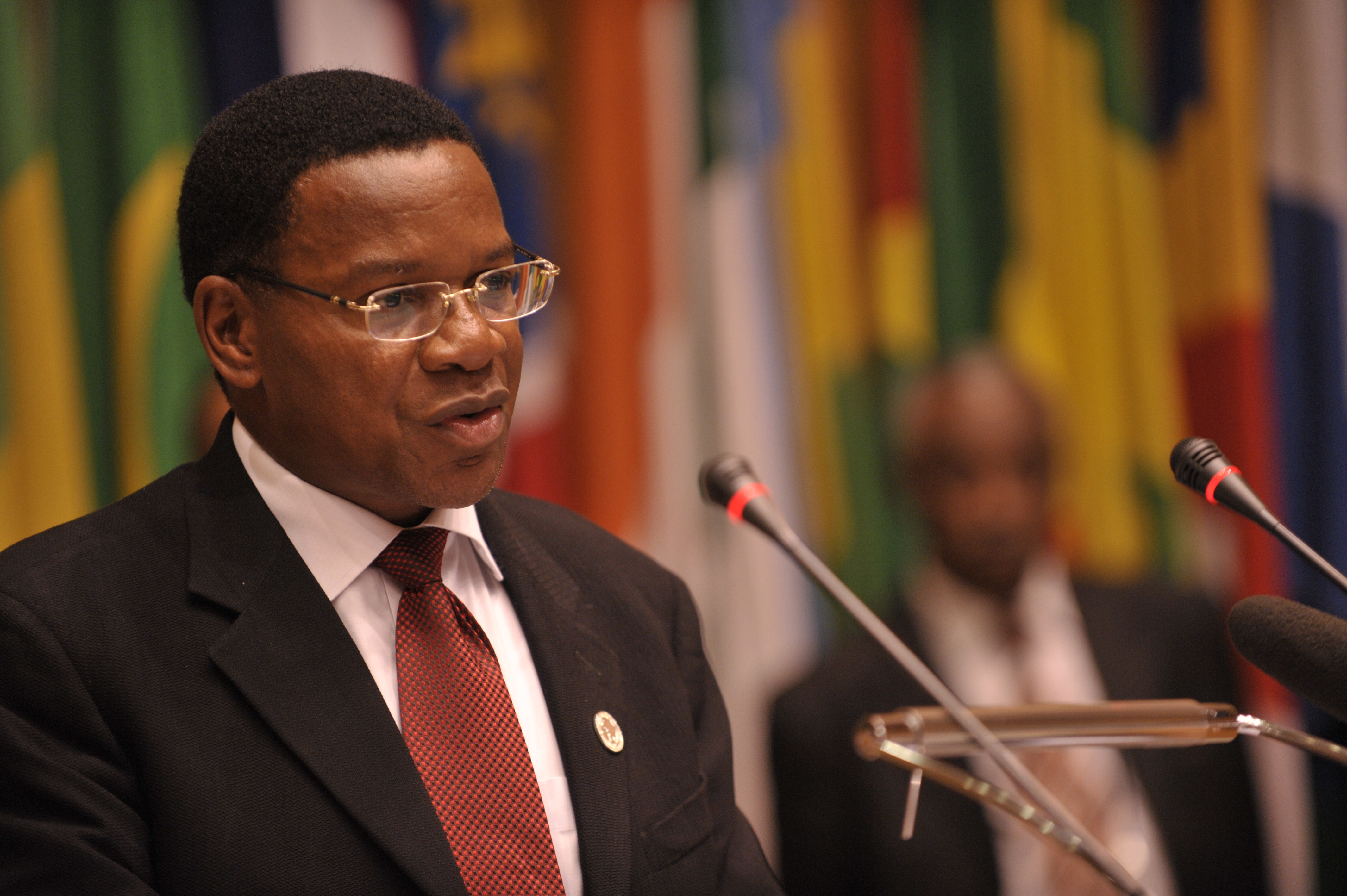 Bernard Mbembe, Minister of Foreign Affairs of the United Republic of Tanzania and chairman of Executive Council of the African Union, gives remarks during the opening session of the 14th Ordinary Session of the Executive Council, Jan. 30, 2009.